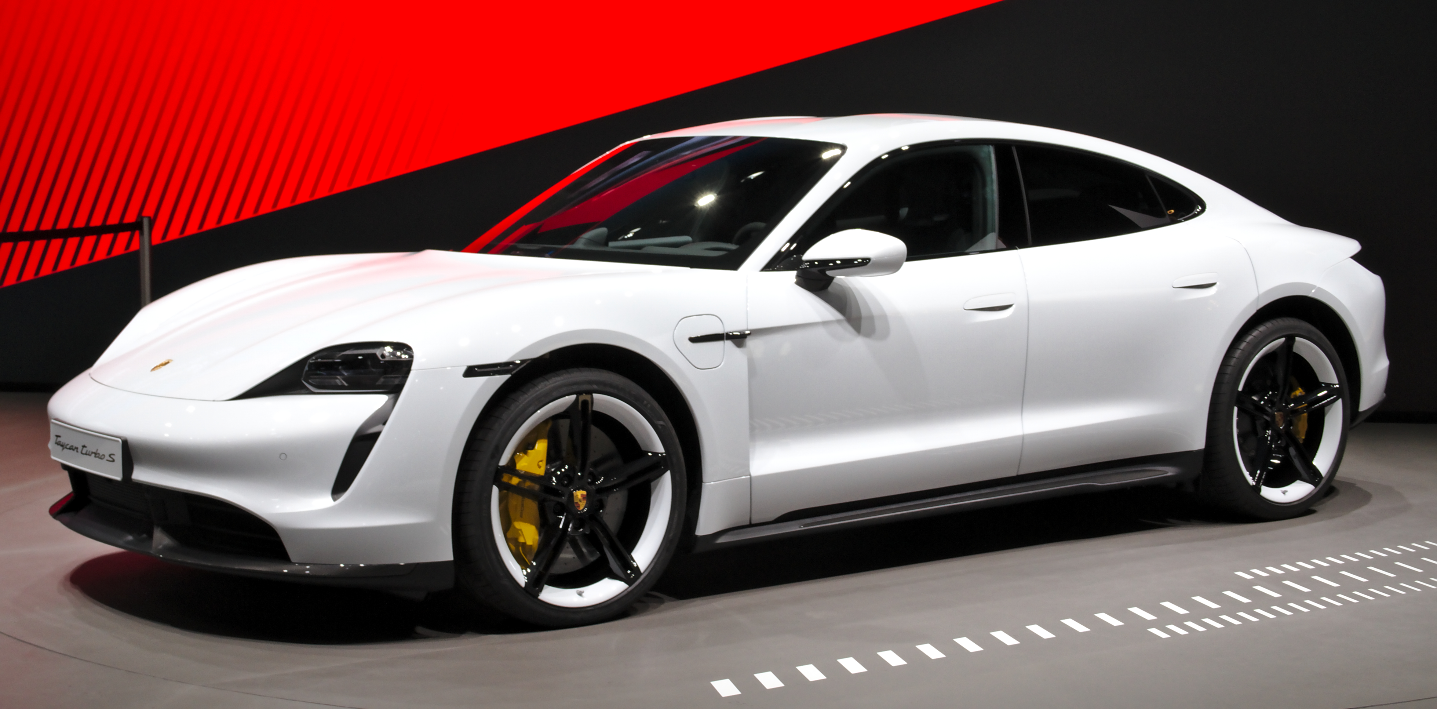 Porsche_Taycan at IAA 2019